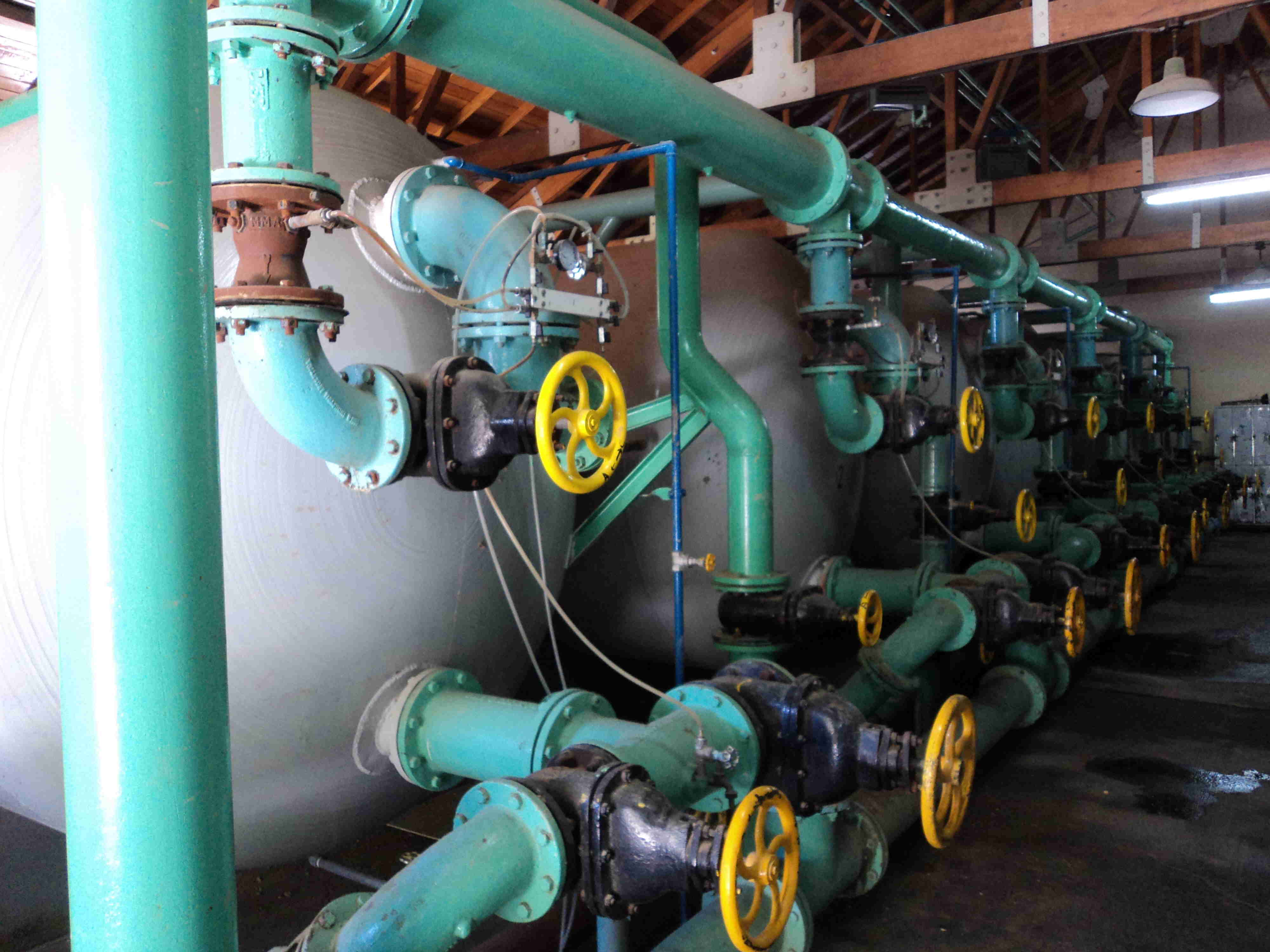 Filtros de presiòn - Planta potabilizadora Acueducto Antiguo